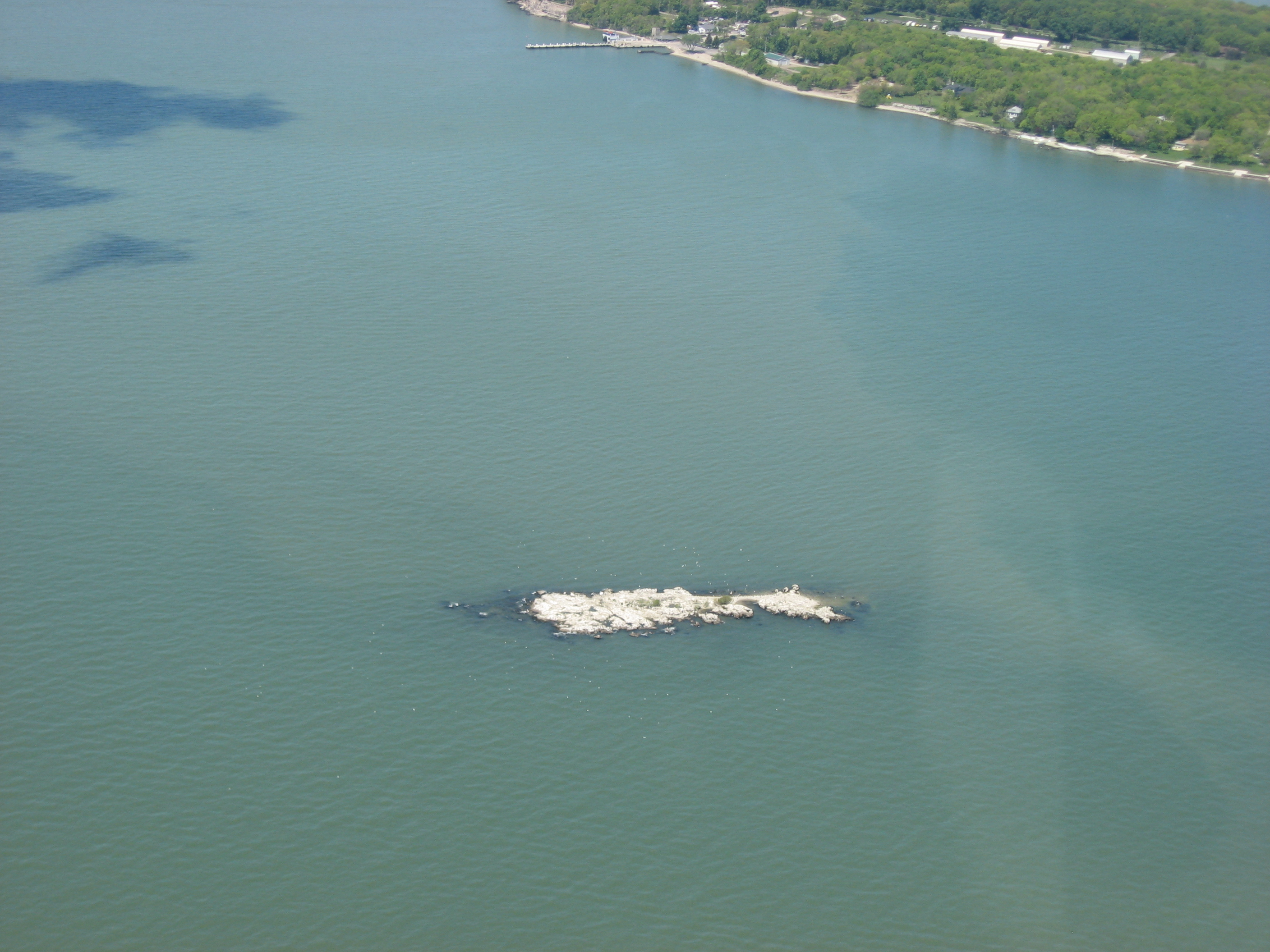 Starve Island, a small island just off South Bass Island, one of the Lake Erie Islands in Ottawa County, Ohio, United States. Picture taken from a Diamond Eclipse light airplane at an altitude of 1,700 feet MSL and a bearing of approximately 270º.